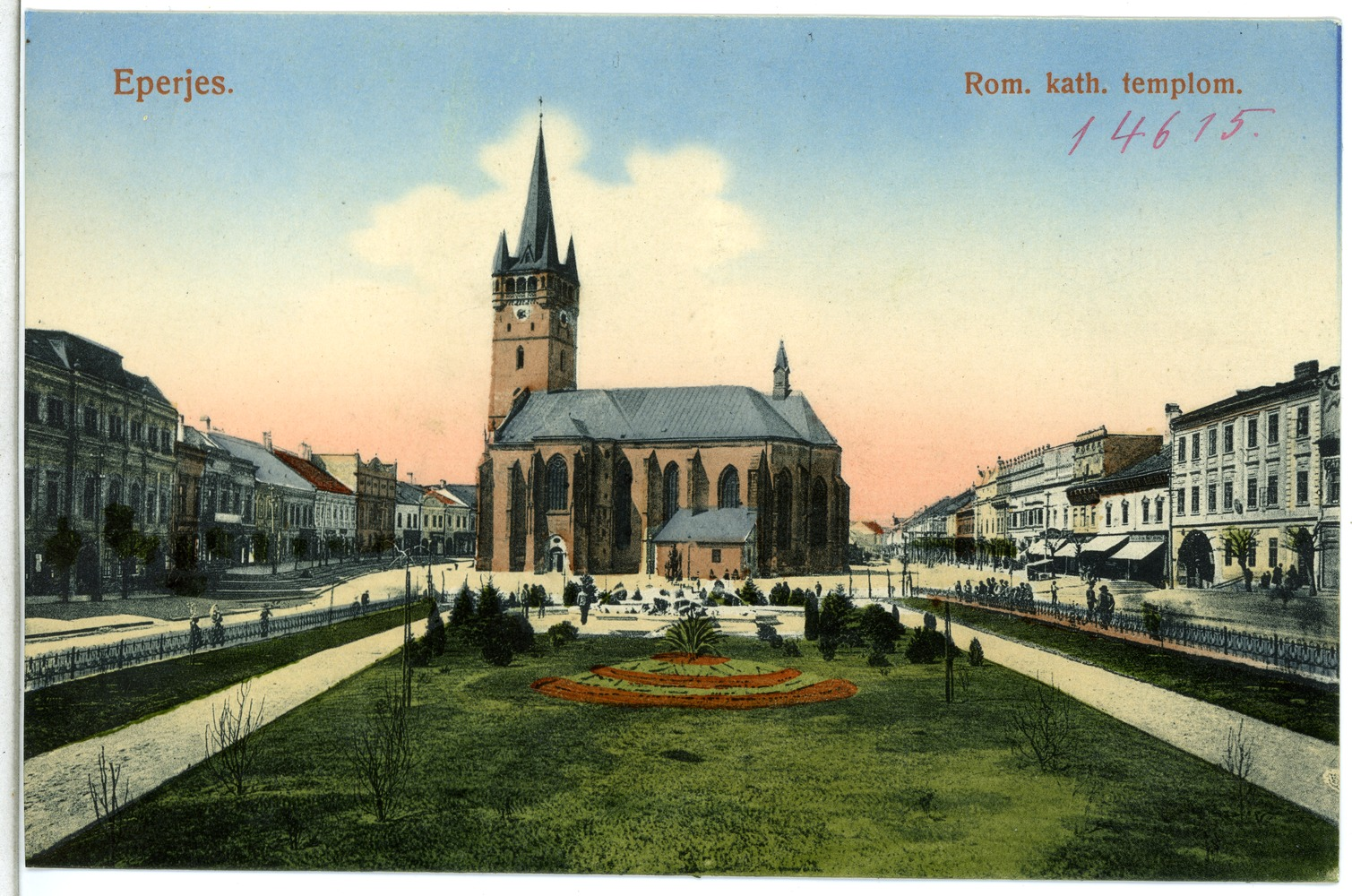 This postcard is from publisher Brück & Sohn in Meißen ( This postcard has a unique number 14615 and is available in a higher resolution at the publisher. This images was uploaded in a cooperation project between Wikipedians and the publisher.